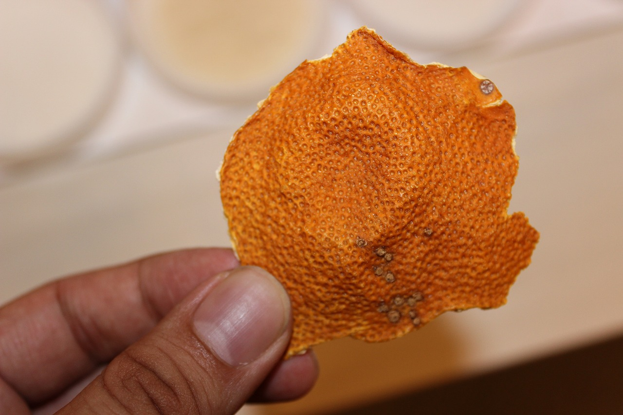 Chenpi is sun-dried tangerine (mandarin) peel used as a traditional seasoning in Chinese cooking and traditional medicine